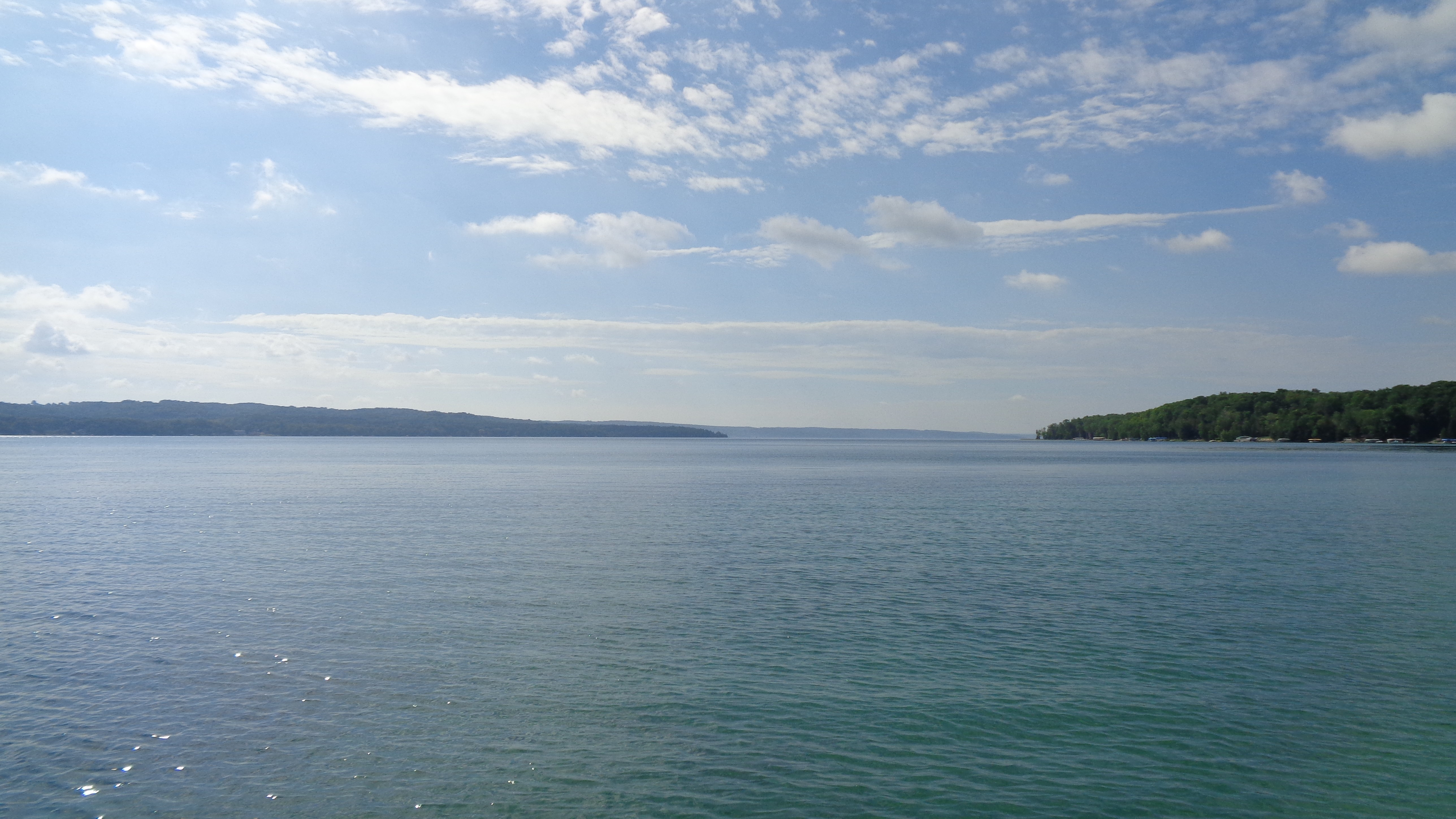 Depicted place: Torch Lake